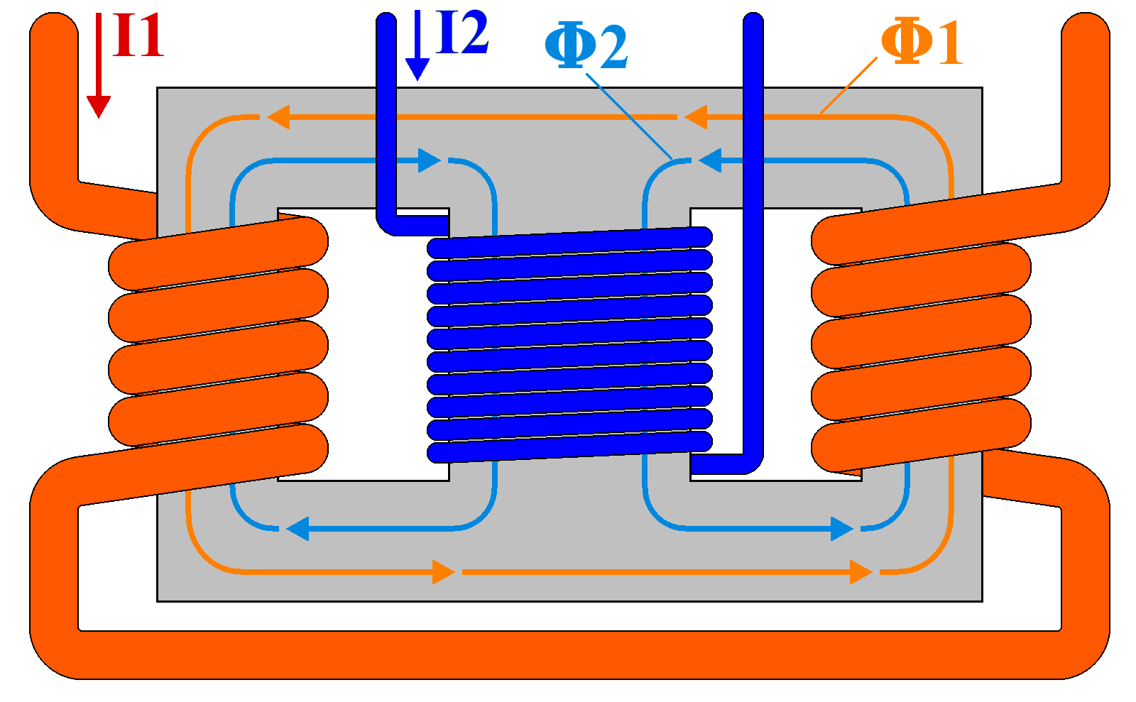 A saturable reactor built on a three legged ferromagnetic core. Flux lines included.